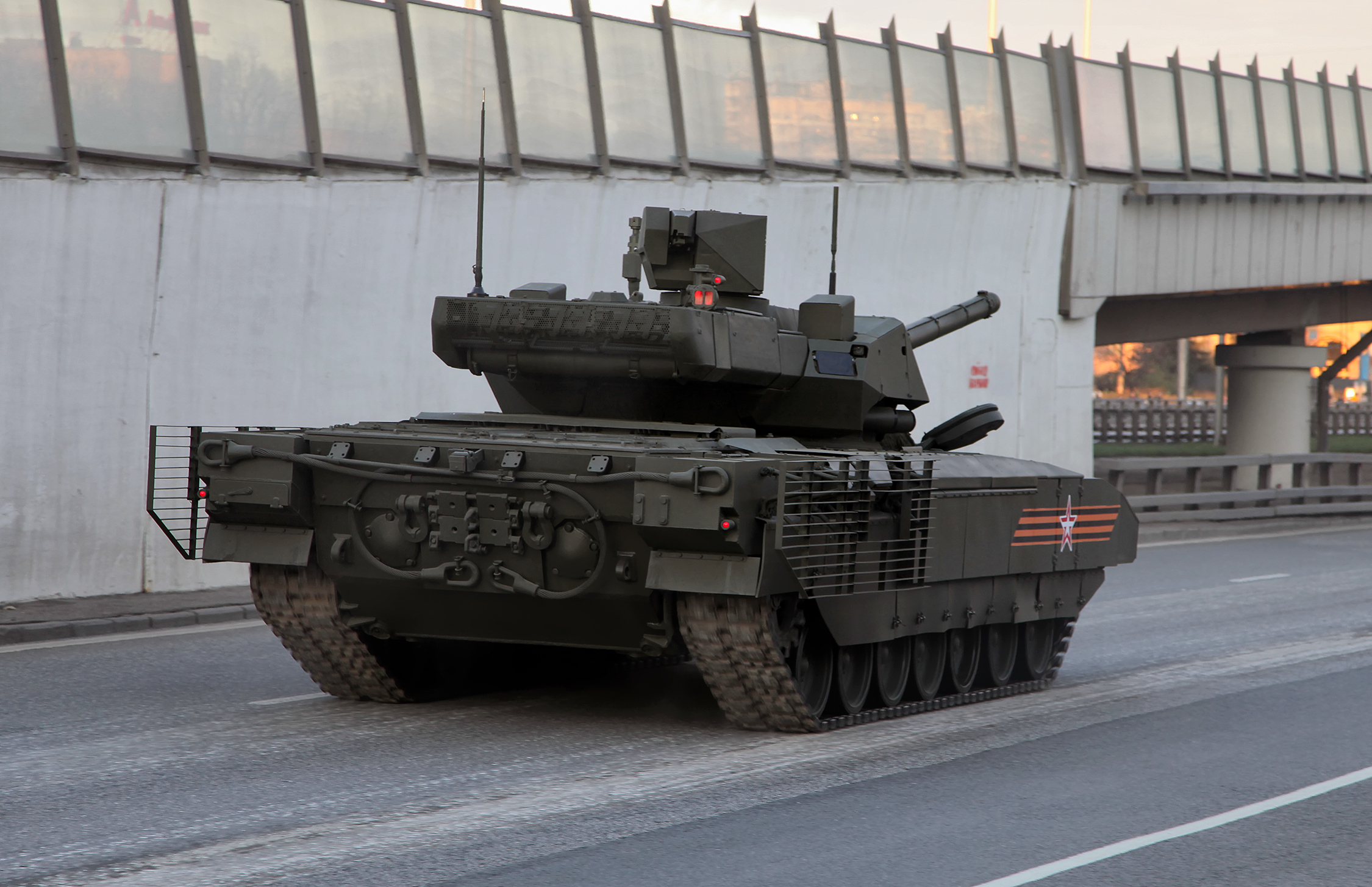 Main battle tank T-14 object 148 Armata